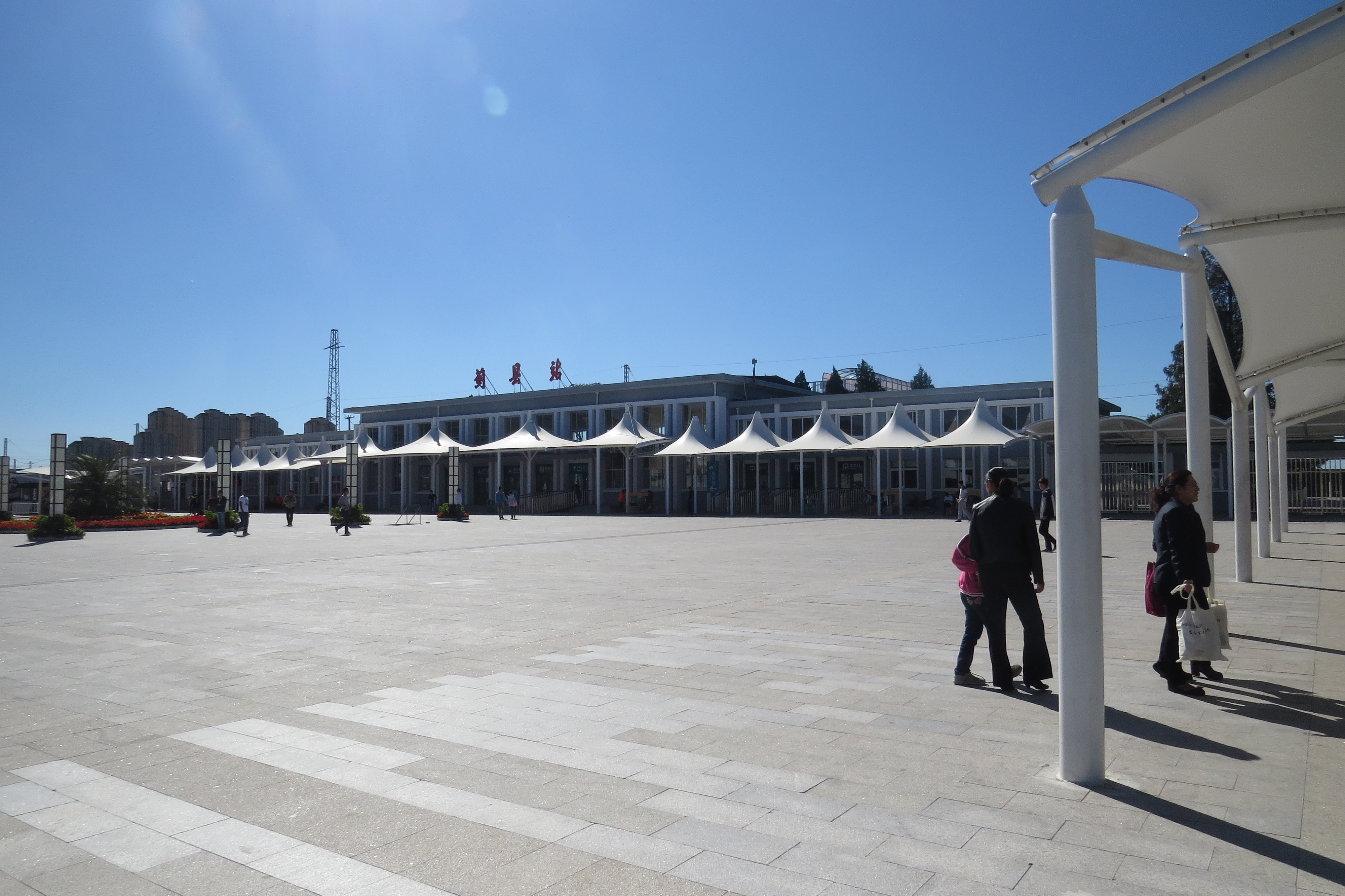 Really sunny day at this newly painted station.